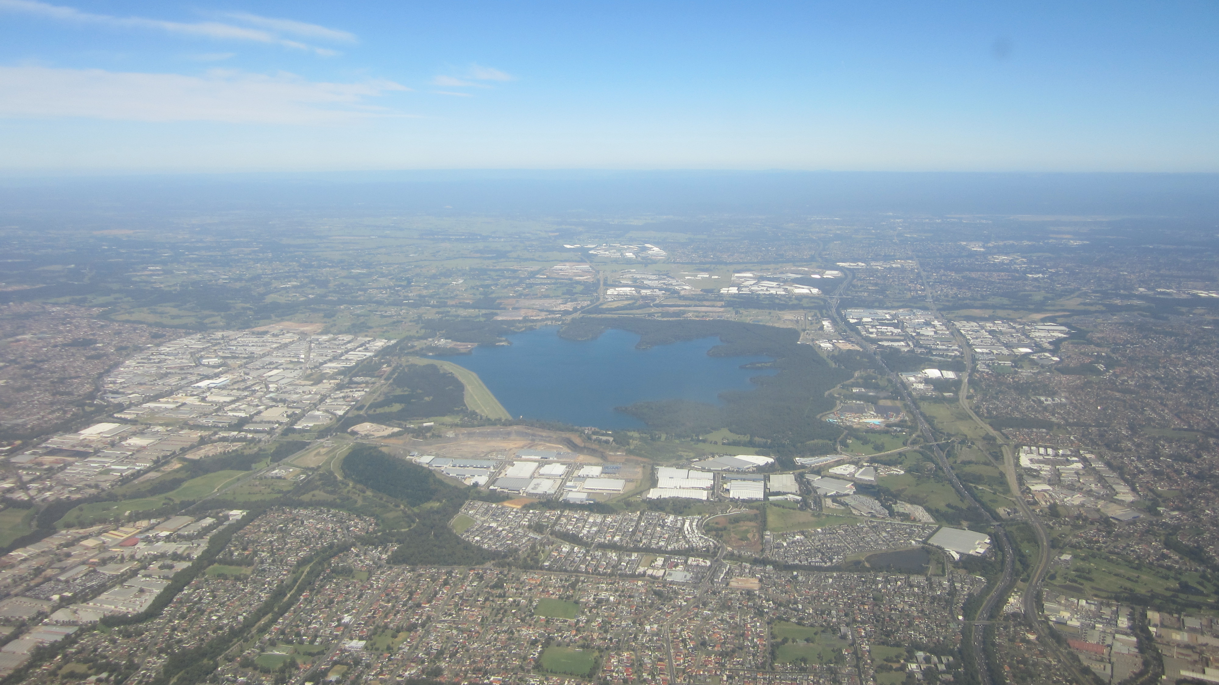 Aerial view of Eastern Creek, Greystanes, Horsley Park, Pemulwuy, Prospect (including Prospect Reservoir) and Wetherill Park.